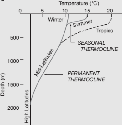 Own work